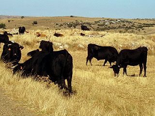 Livestock at San Esteban de los Patos.